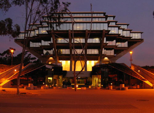 UCSD's Geisel Library. It has been featured in several science-fiction movies because of its exotic appearance, and is the basis of the school's current logo. It is considered to be one of the finest, if not the finest, examples of Brutalist architecture.